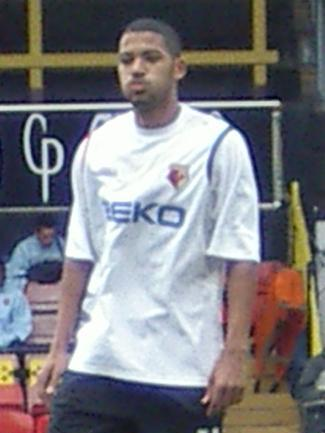 A photo of Jobi McAnuff taken at Watford vs Sheff Utd on 18th August 2007